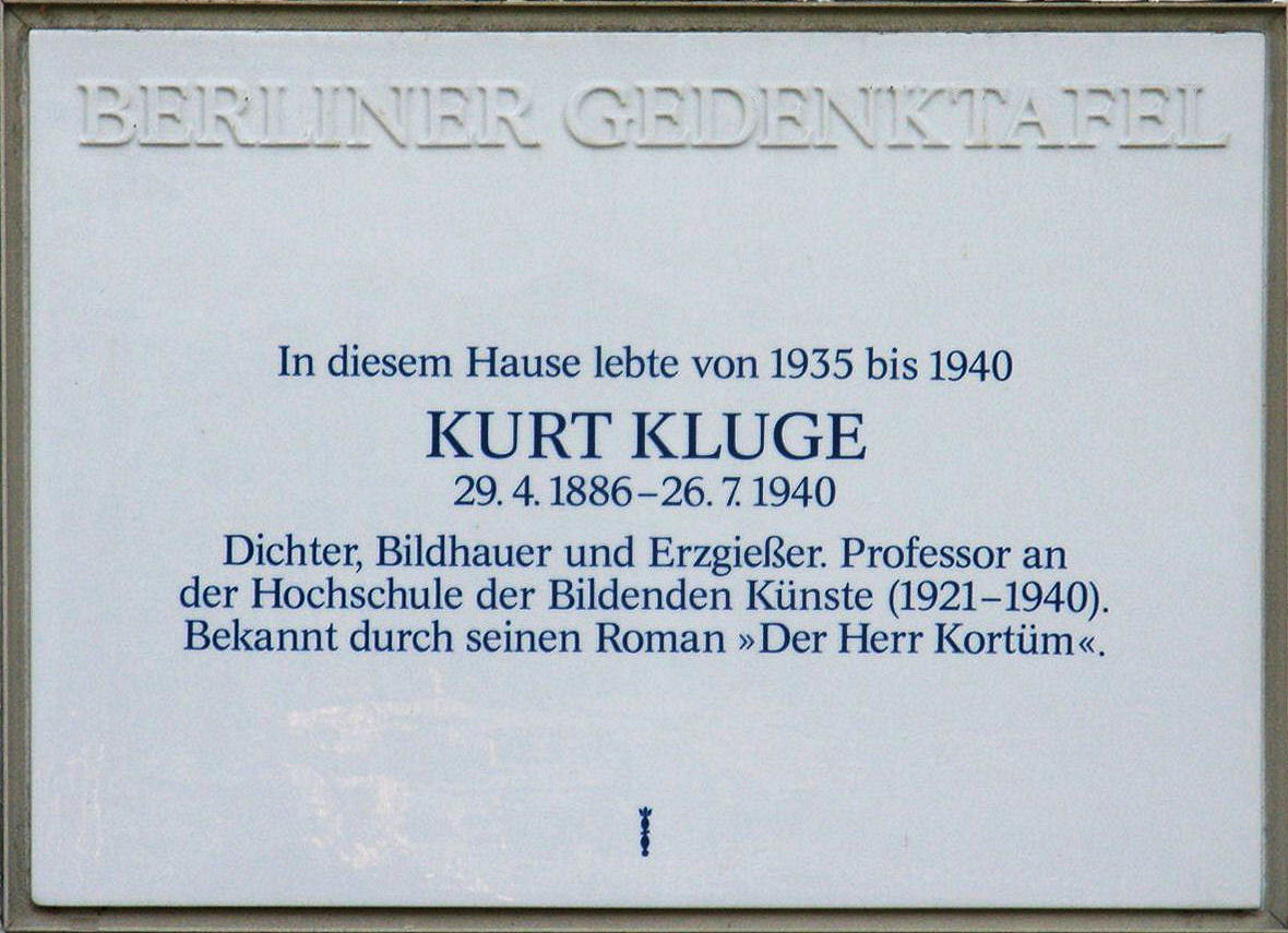 Berlin memorial plaque, Kurt Kluge, Krottnaurerstraße 64, Berlin-Nikolassee, Germany Koordinate:52°25′48″N 13°12′37″E / 52.43°N 13.21028°E